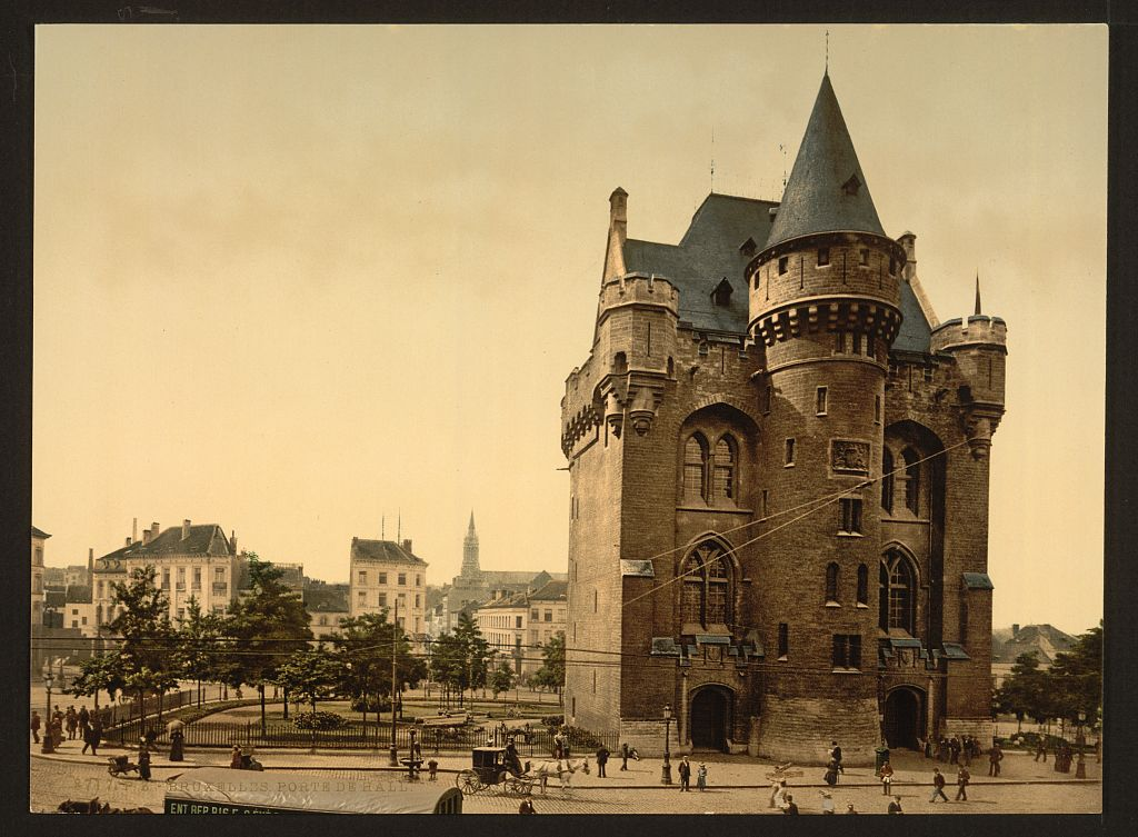 The Porte de Hal, or Hallepoort, Brussels, Belgium (ca. 1890-1900)